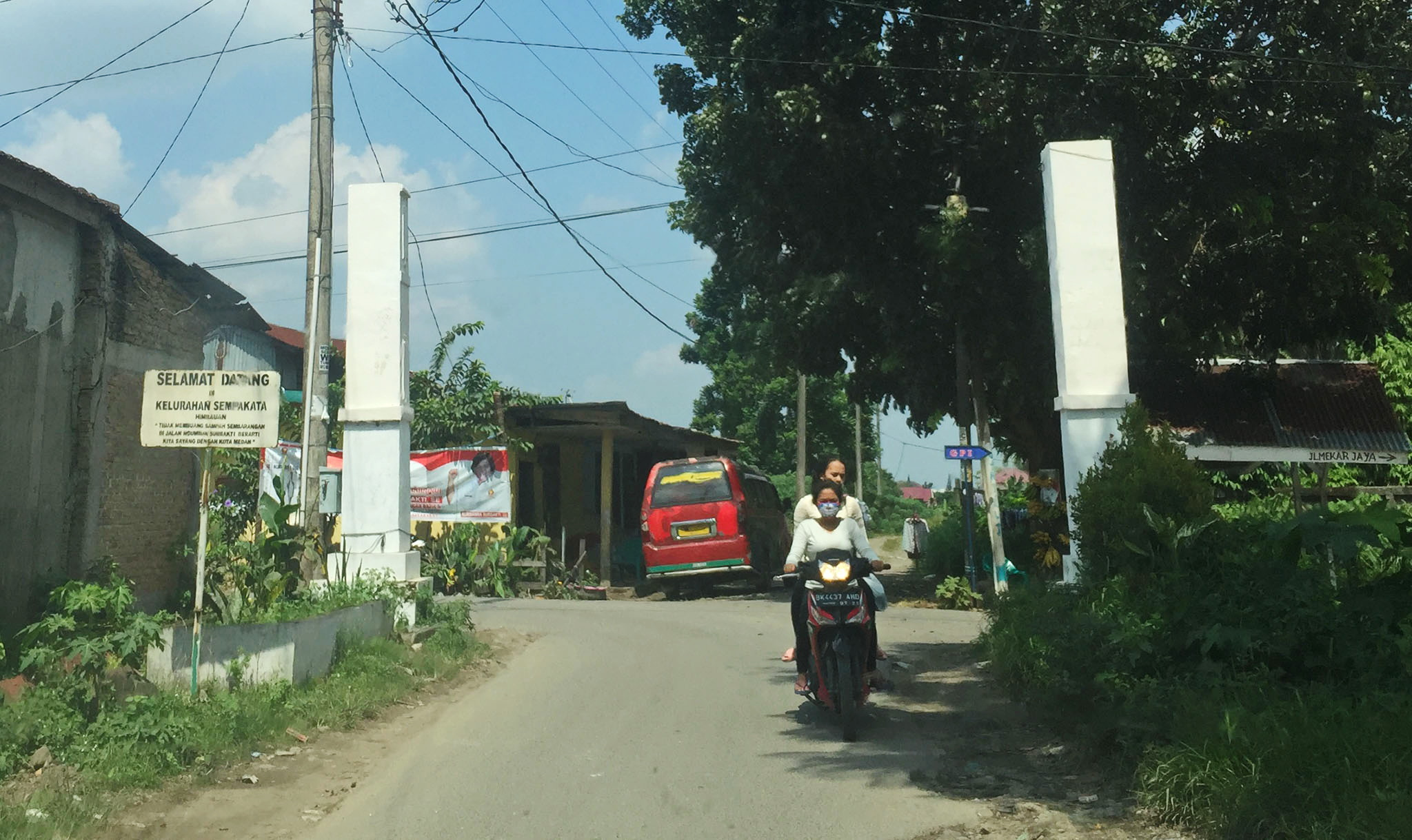 welcome gate to Sempakata, Medan Selayang, Medan